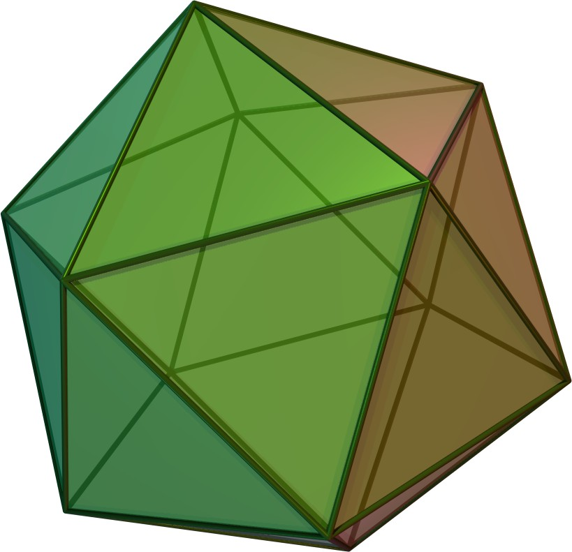 An Icosahedron. A regular polyhedron. Text from en: Icosahedron, made by me using POV-Ray, see User:Cyp/Poly.pov for source.